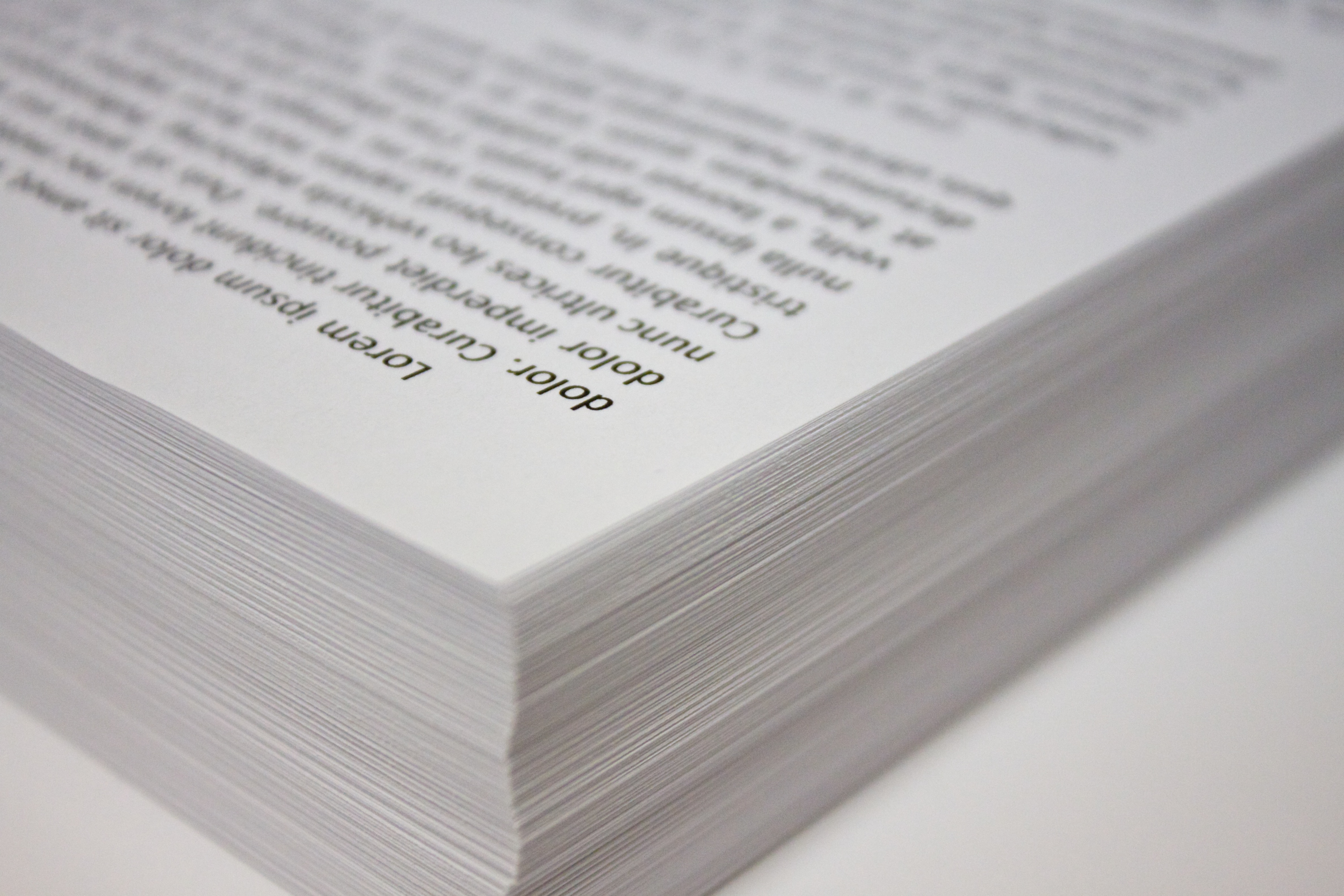 A stack of copy paper.